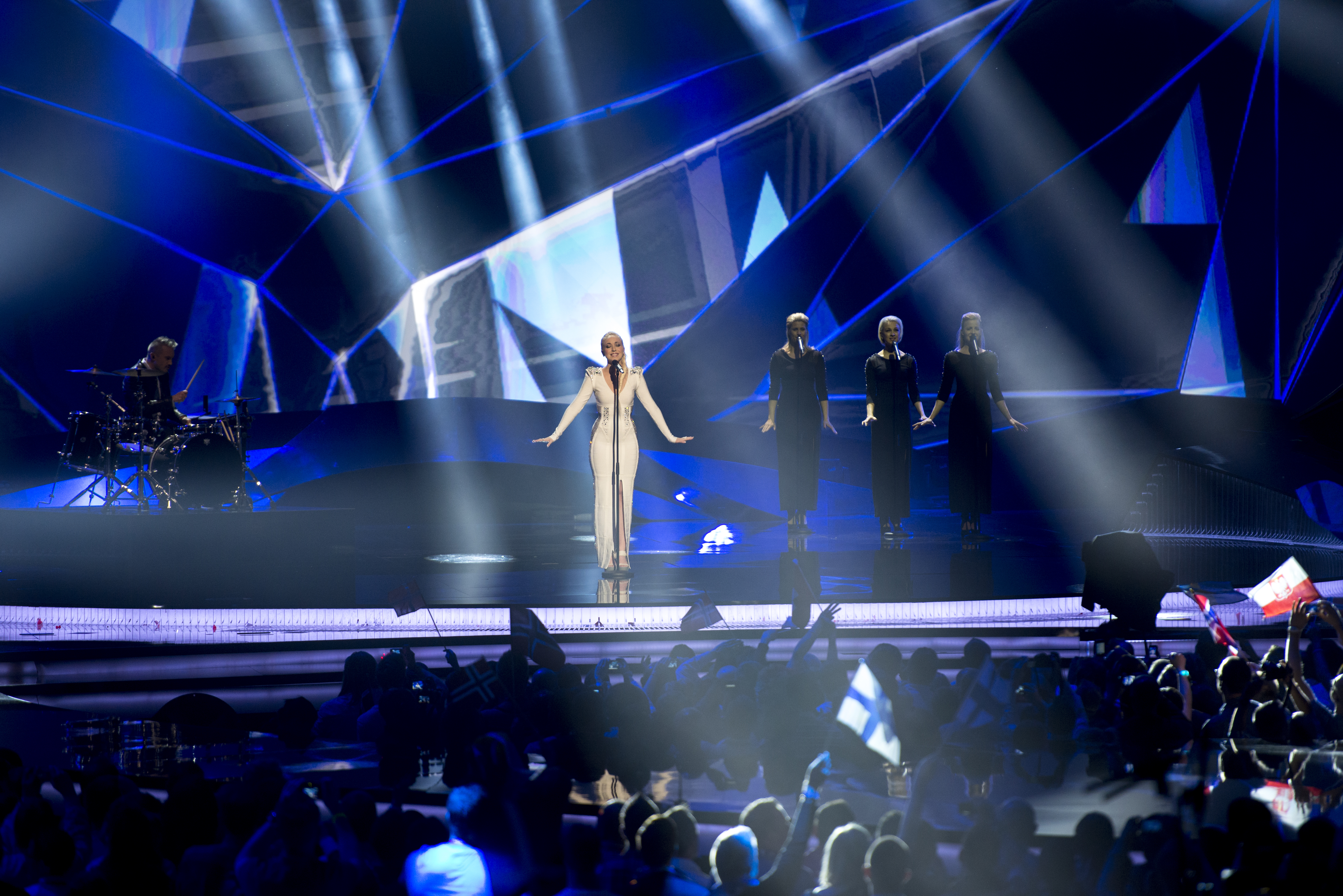 Margaret Berger representing Norway with the song "I Feed You My Love" during the second dress rehearsal of the second semi final of the Eurovision Song Contest 2013 in Malmö. (Help translate this text)